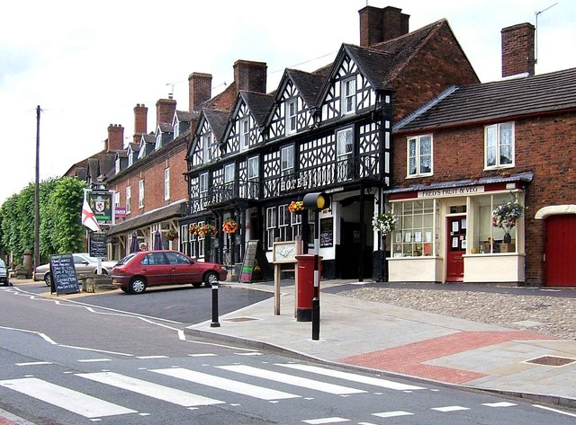 The Talbot Hotel, 29 High Street. The hotel is now open again and owned by the brewers Greene King. A year ago (July 2008) it was closed. 892308